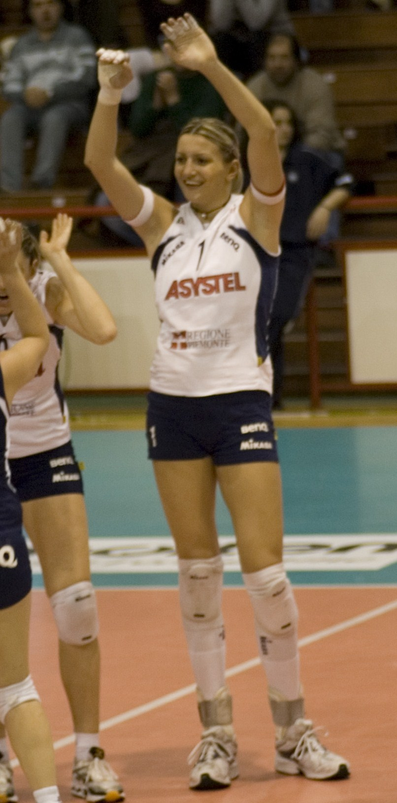 Italian volleyball player Sara Anzanello